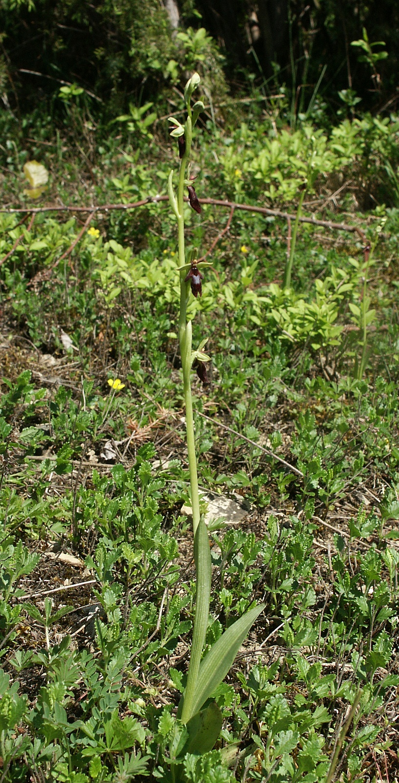 Ophrys insectifera